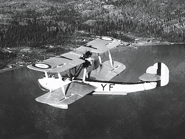 Canadian Vickers Vedette